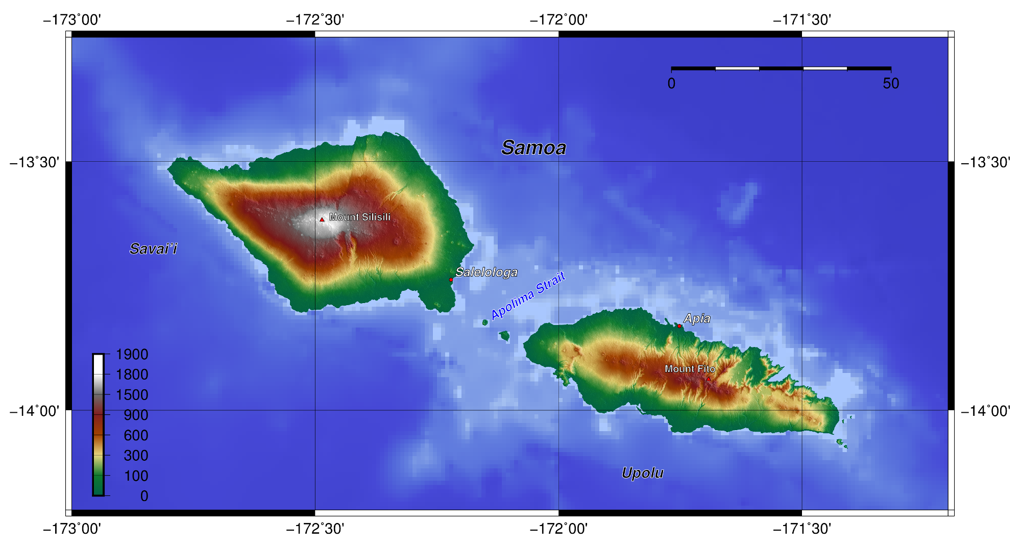 Topography of Samoa, created with GMT 5.1.2